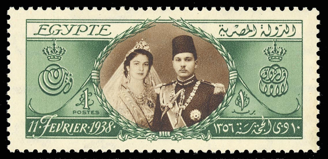 Stamp of Egypt, Farouk and Farida, 1938, 1 pound.